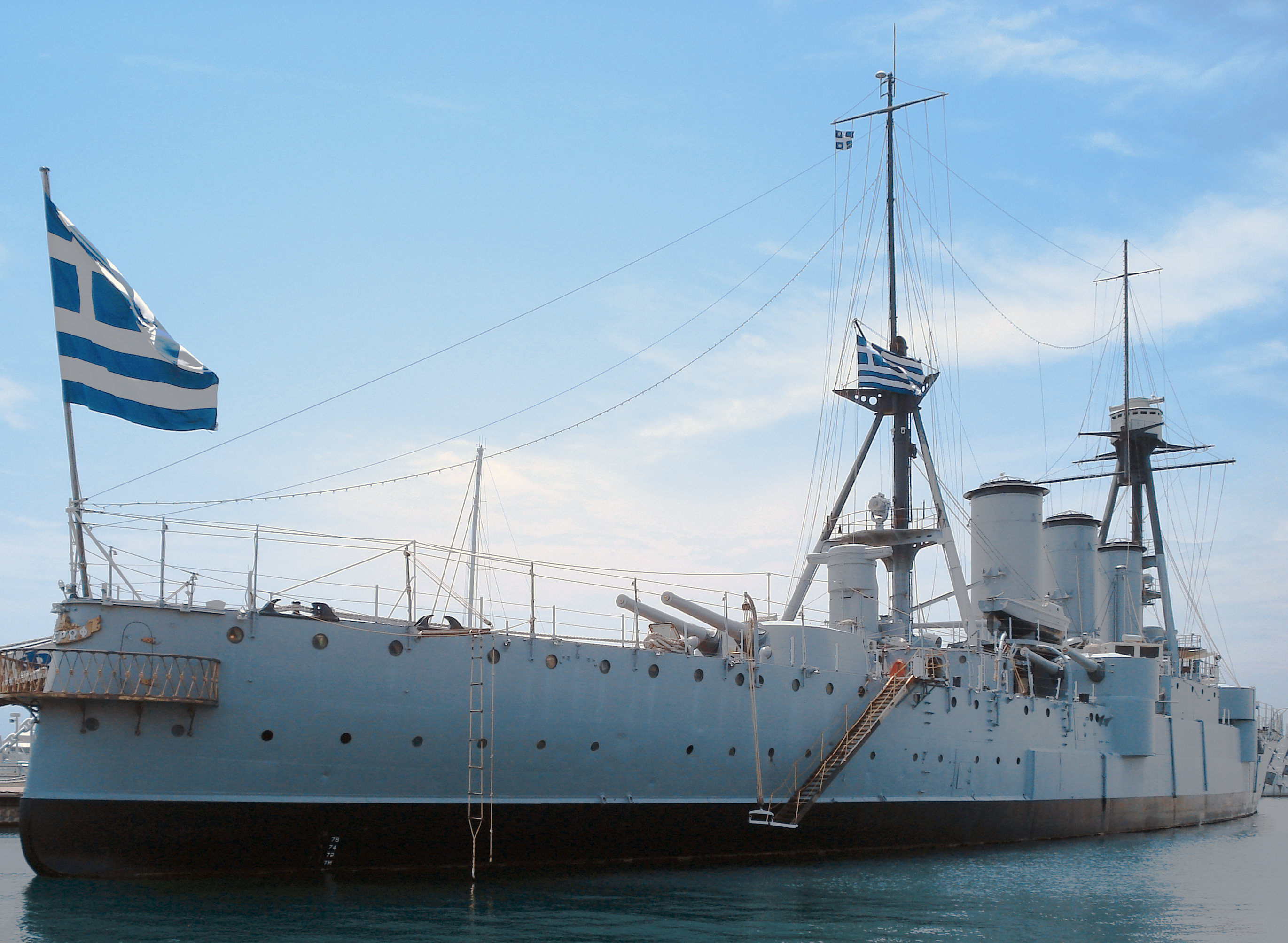 HS Averof as a Museum ship in 2006